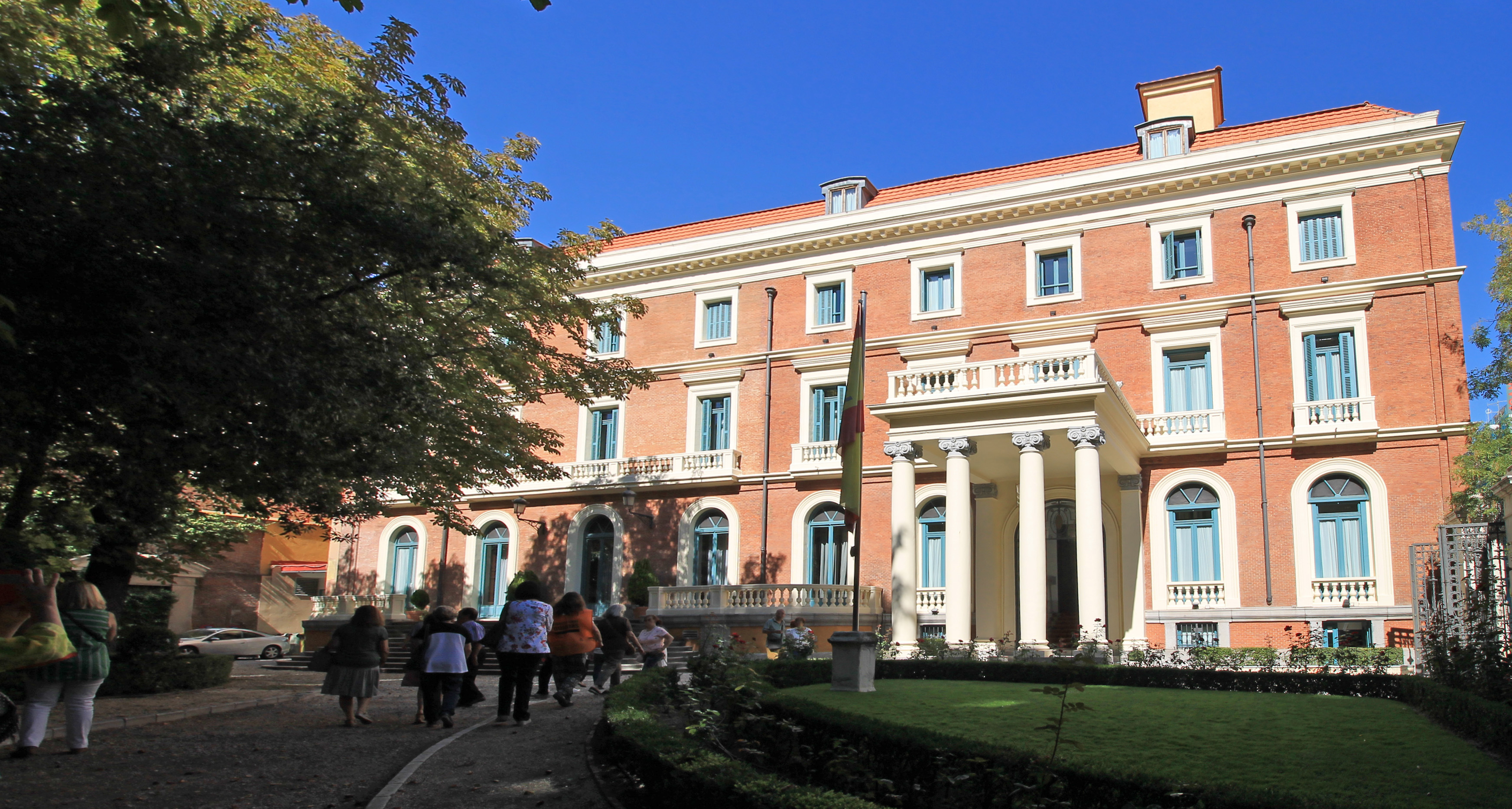 South façade of Palacio de Zurbano (a former mansion) in Madrid (Spain).